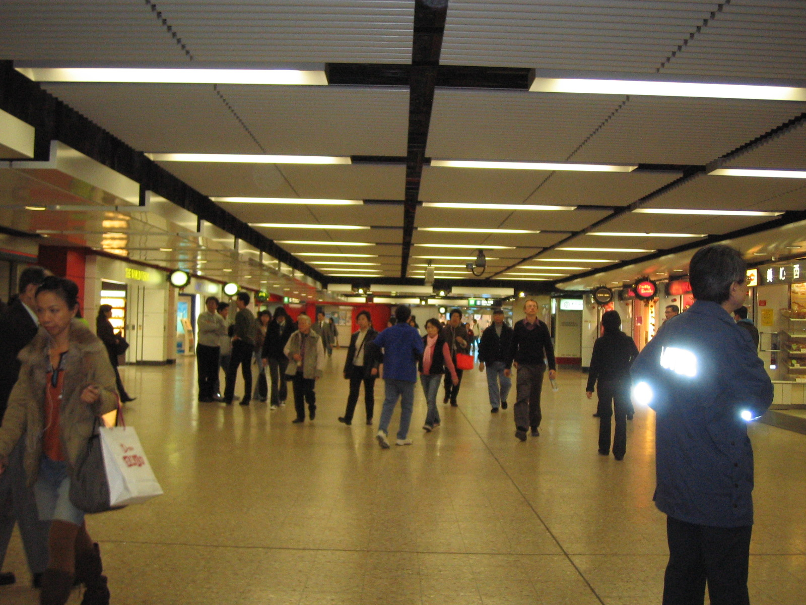 Concourse of Central MTR Station.